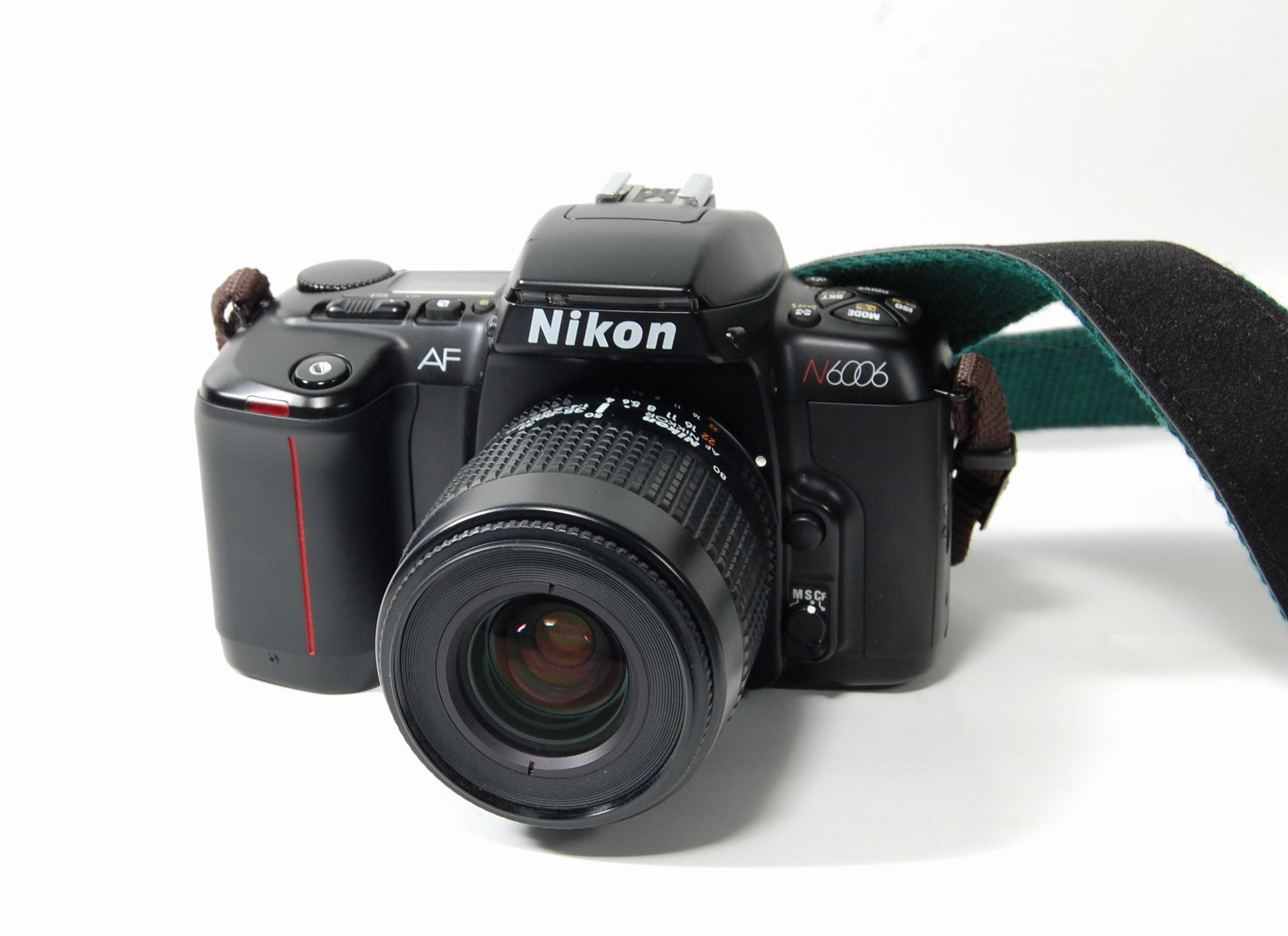 A North American release Nikon n6006 (F601)